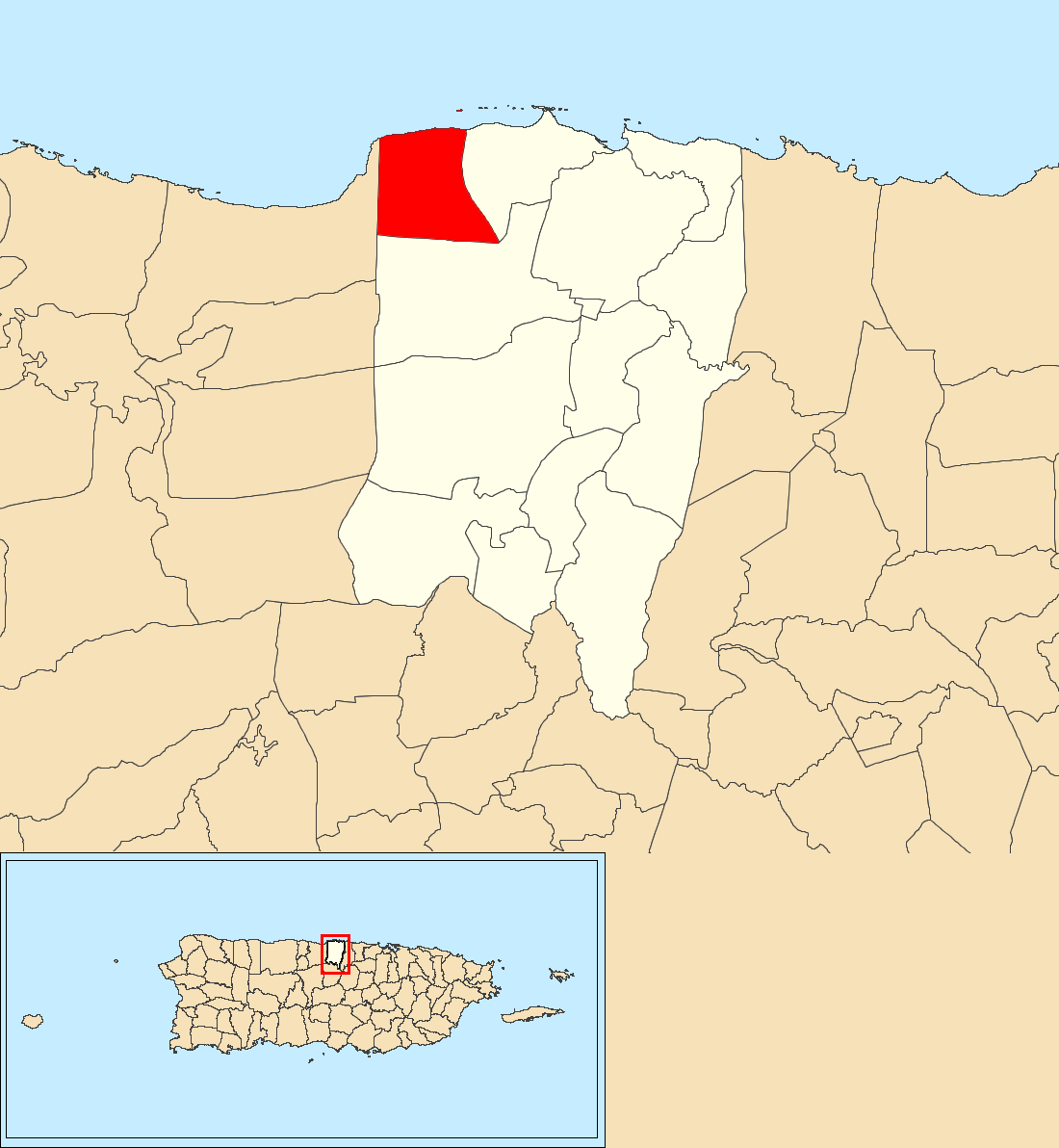 Yeguada, Vega Baja, Puerto Rico locator map